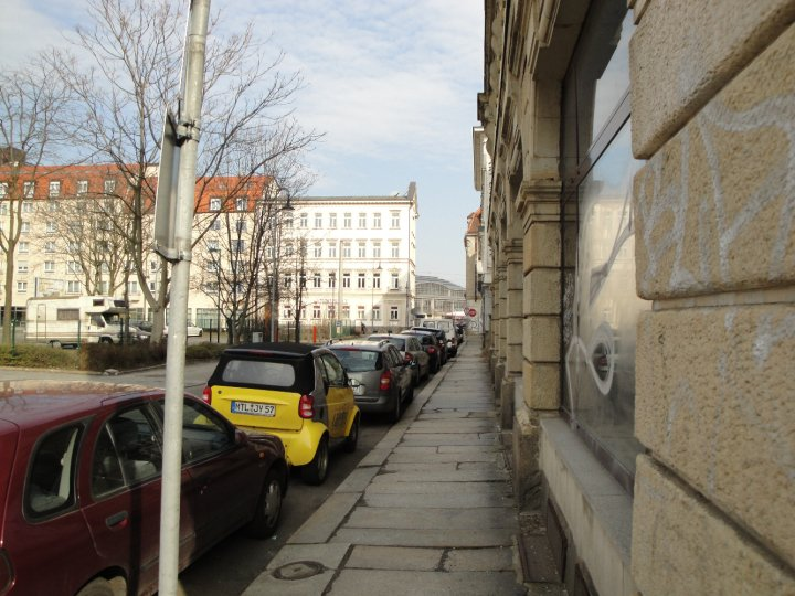 A photograph of a street in Leipzig, Germany.